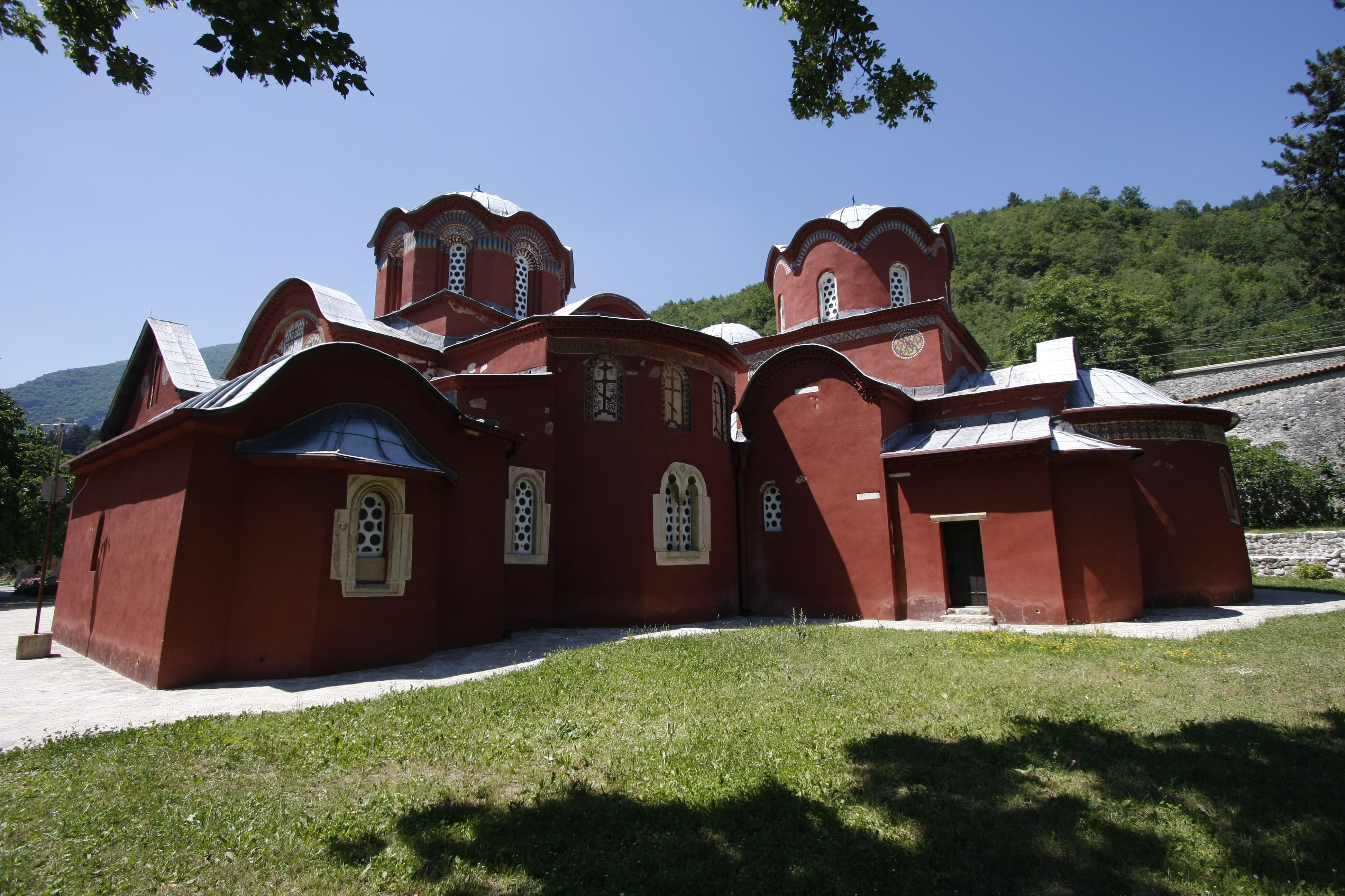 Pecka patrijarsija